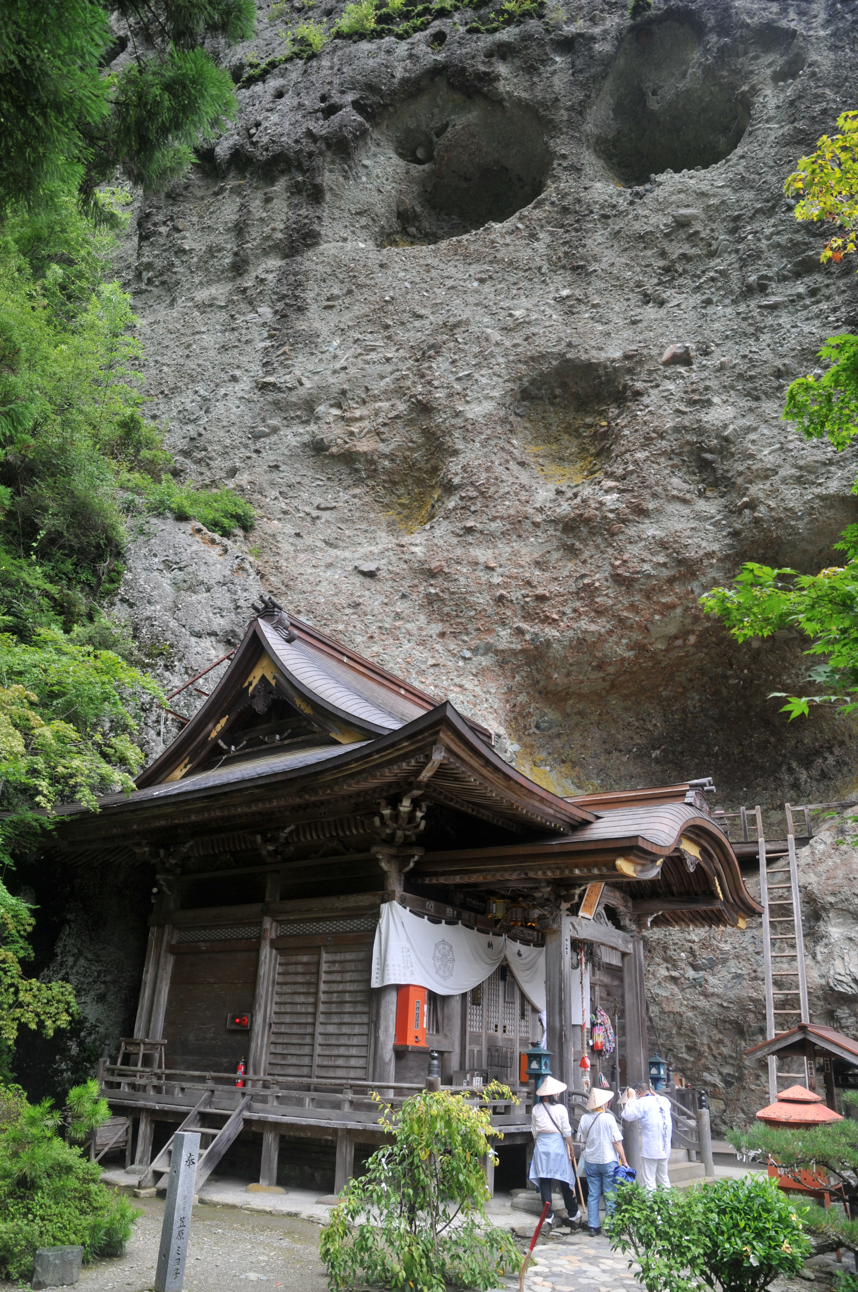 Main temple, Iwaya-ji